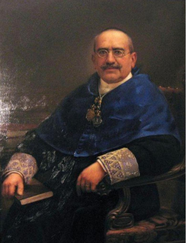 Retrat d'Eugenio Mascareñas Hernández (1917)